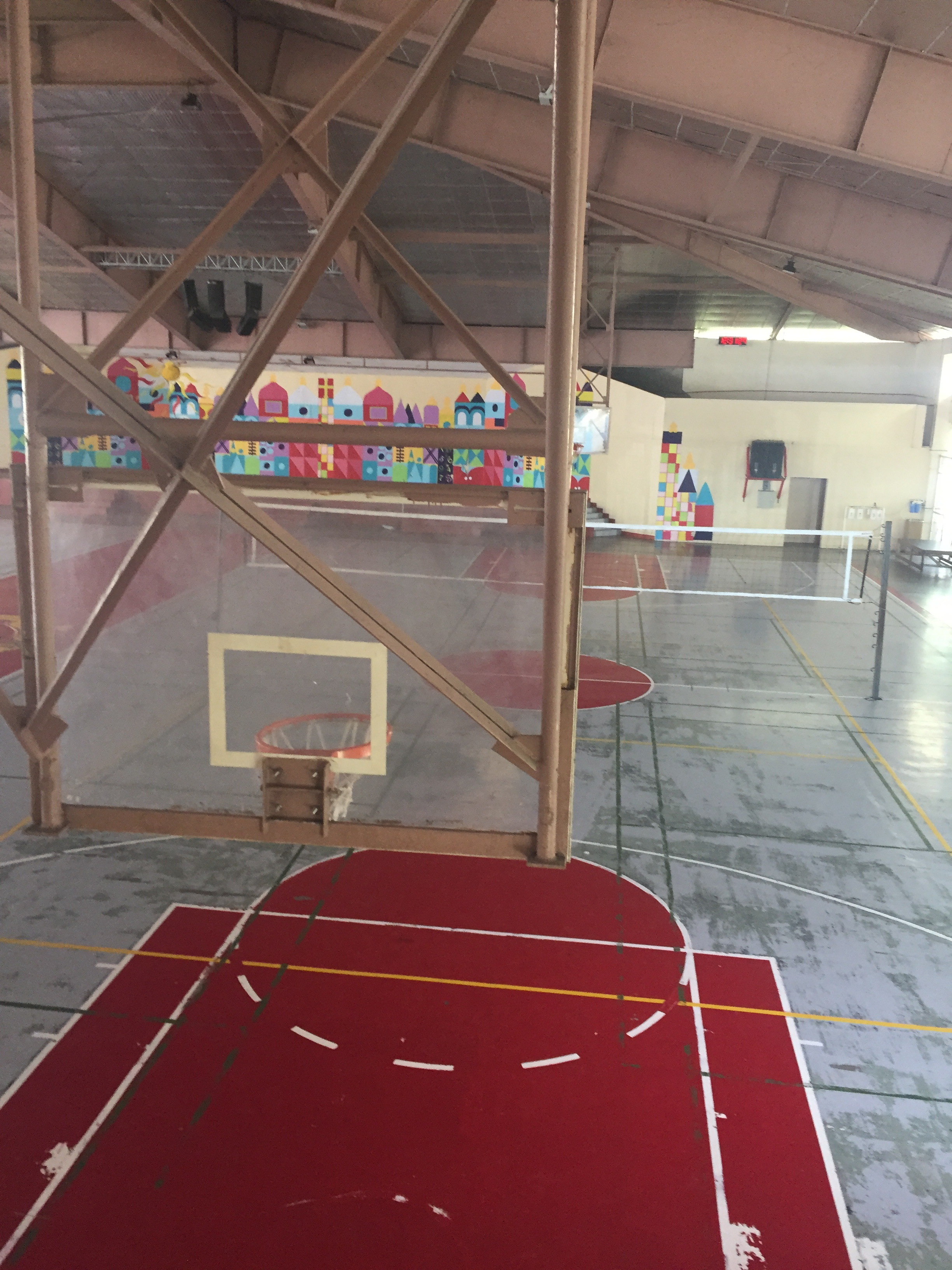 Picture of the SBCA Gym from the Athletics Office in 2016.